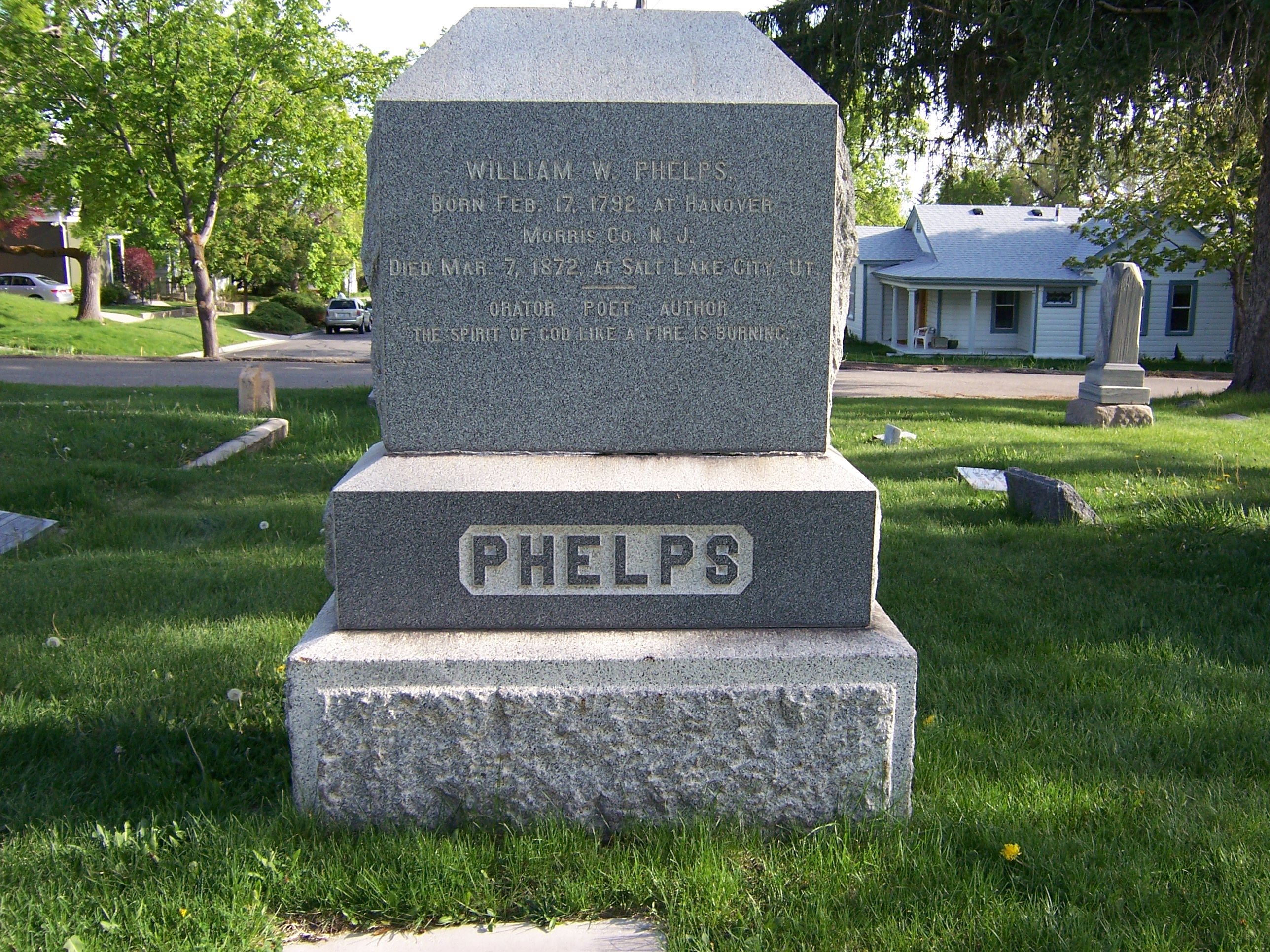 William W. Phelps' Grave Marker